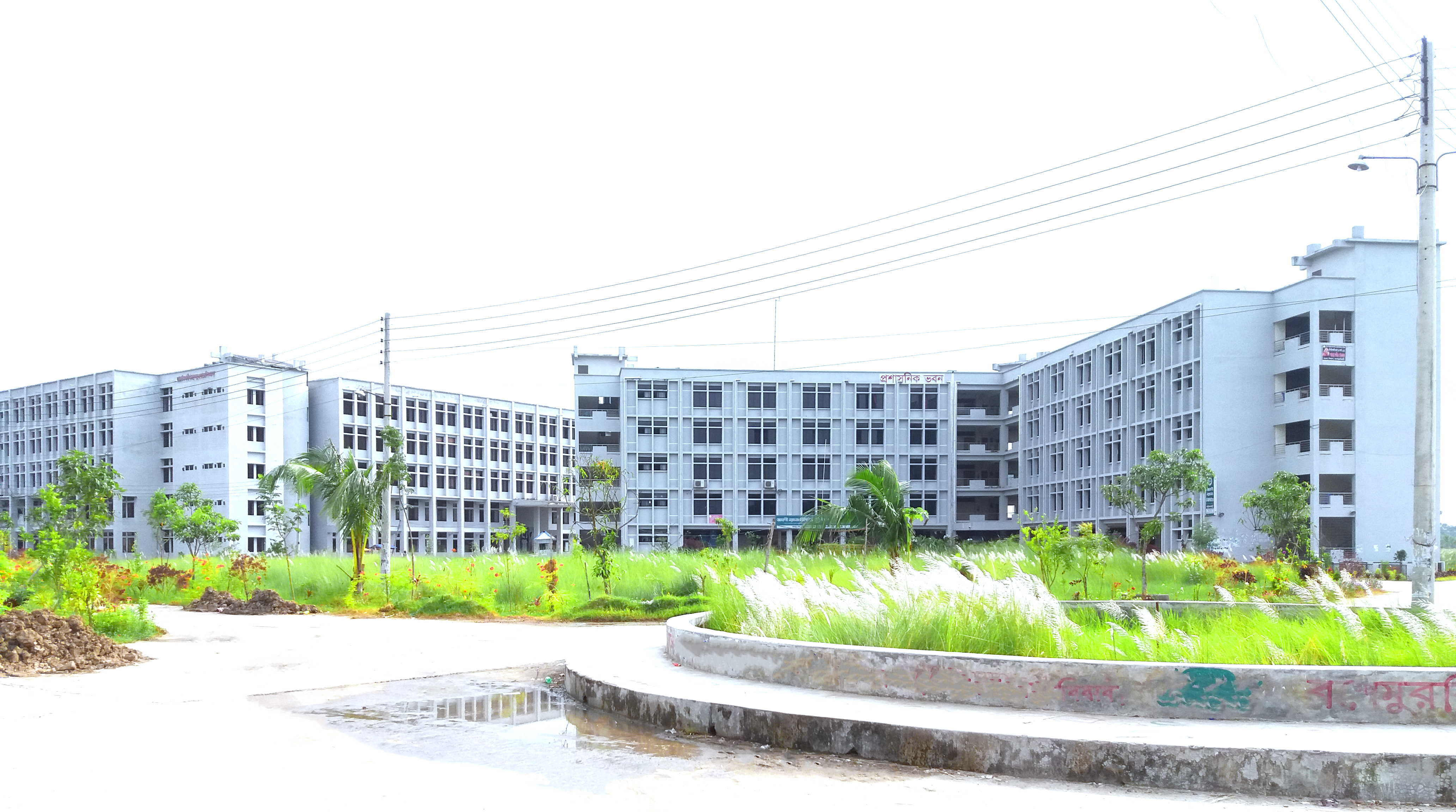 It is the picture of Bsmrstu(academic and administrative building)